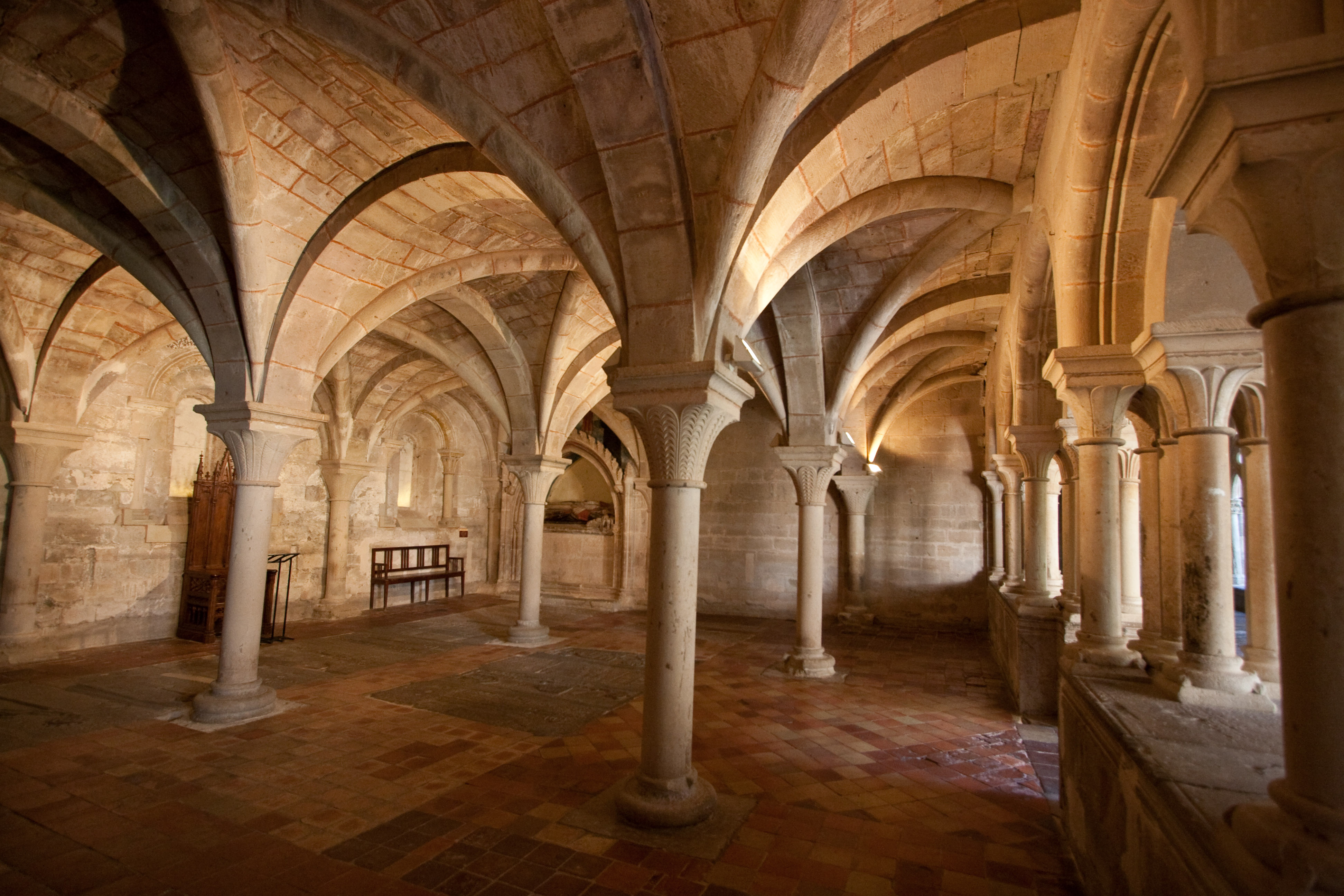 Chapter House of the monastery of Veruela, located in the eastern gallery of the cloisters.